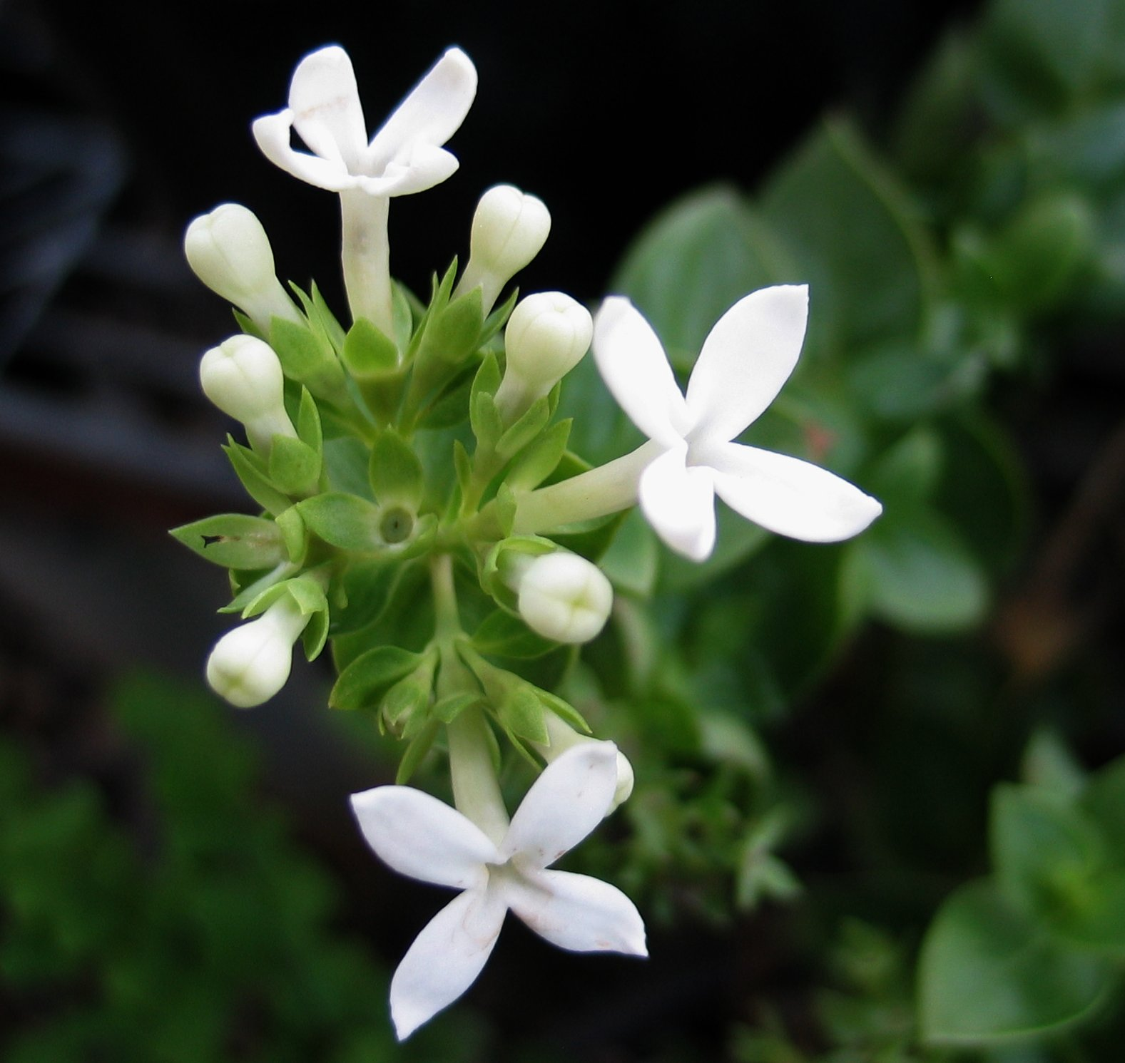 [syn. Hedyotis parvula] Rubiaceae Endemic to the Hawaiian islands Endangered Oʻahu (Cultivated)